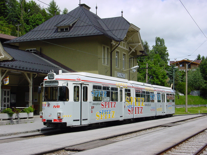 Fulpmes, railwaystation